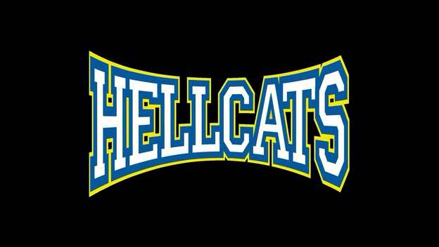 The title card from the television show Hellcats